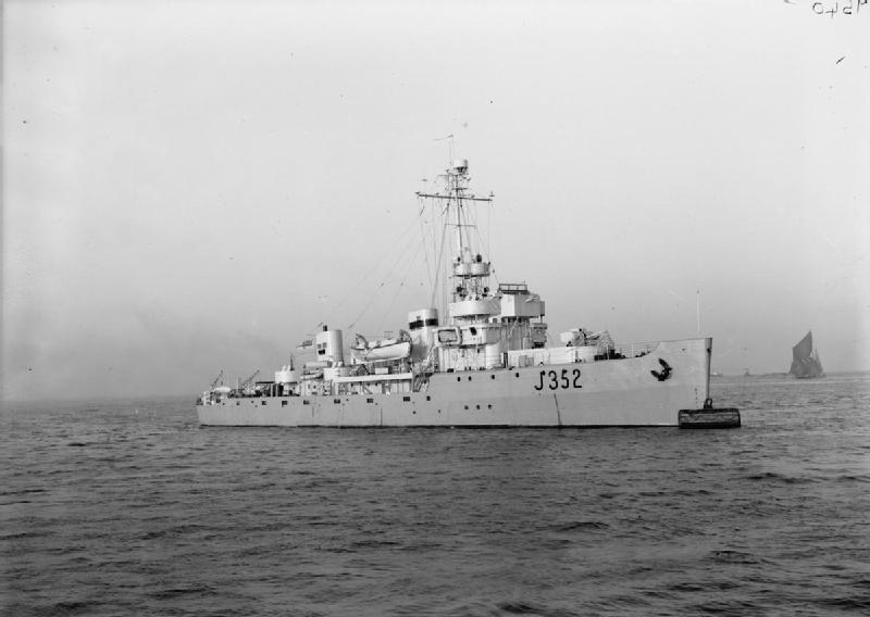 HMS Grecian Moored.